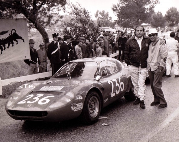 Entry #236 in the 54° Targa Florio on May 3 1970 was an Abarth OT "Periscopio" 1300 driven by Guido Garufi and Francesco Troia of the "Scuderia Pegaso" racing team. They won their class (1300 ccm) and ended 34th overall.[1]. More about the car: "Periscopio" is a roof-mounted air intake to feed air to the drivers, and "OT" means Omologato Turismo."